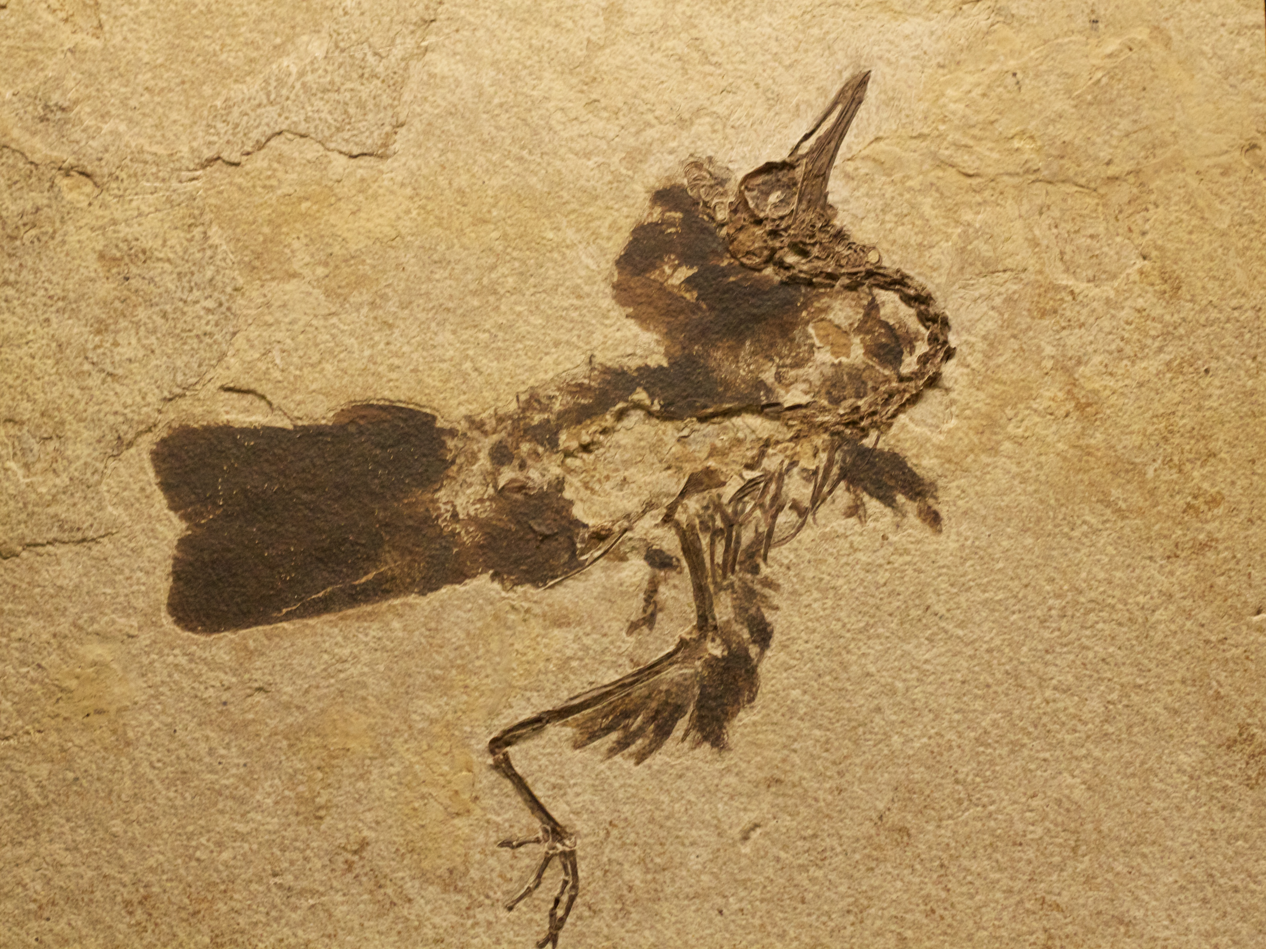 Unidentified bird species from the Fossil Butte Member in southwestern Wyoming, USA (FMHH PA 778, Field Museum of Natural History, Chicago, Illinois, USA).[1]